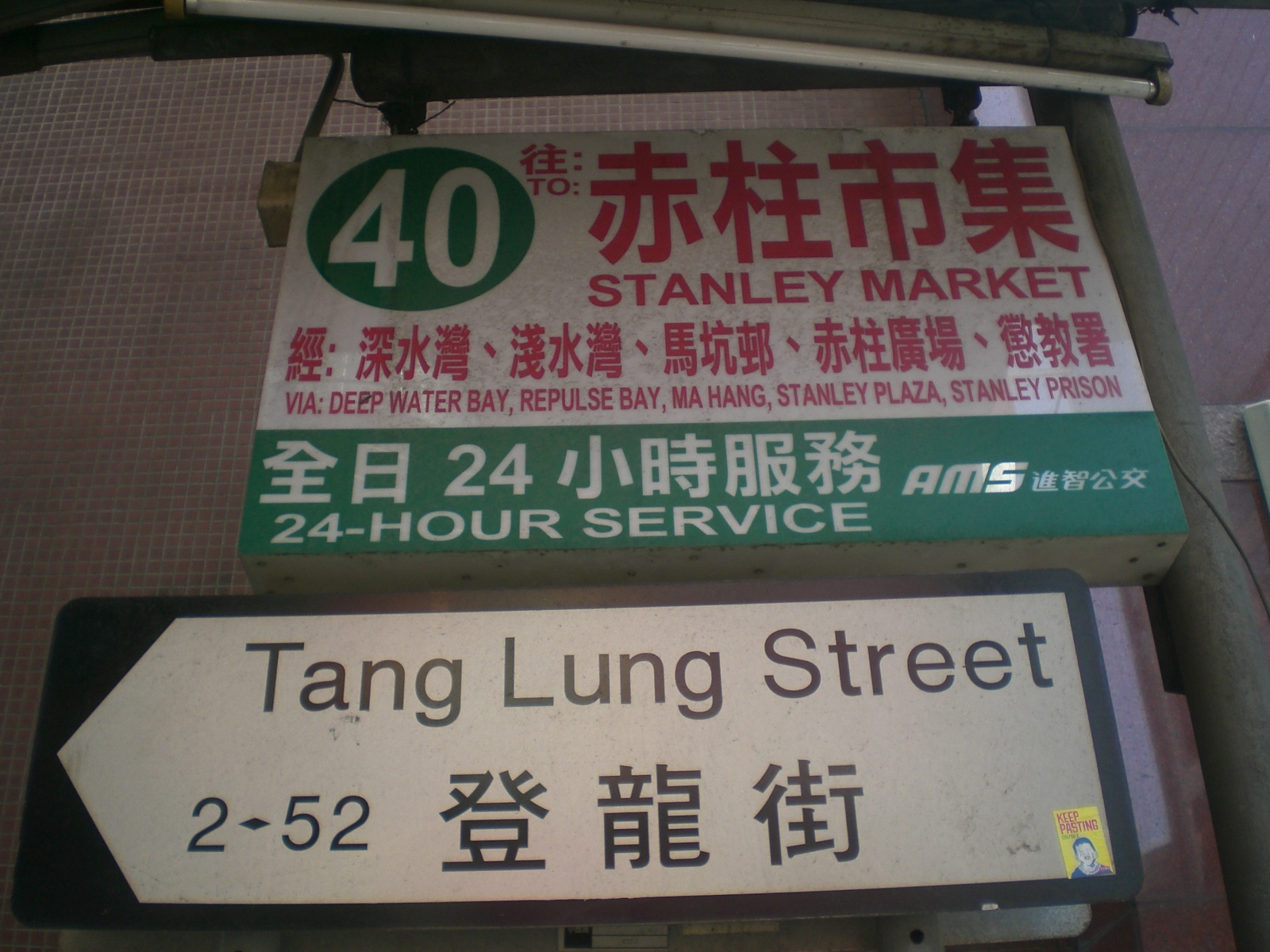 銅鑼灣登龍街的街尾zh:小巴站